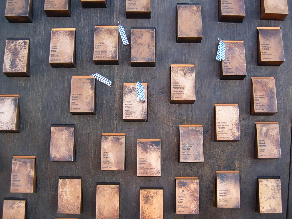 National Police Memorial Australia - examples of touchstones in wall.